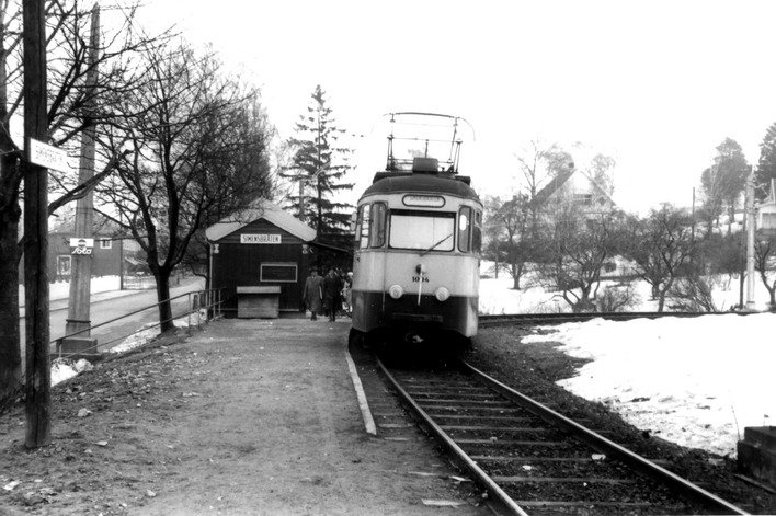 Ekebergbanen tram 1004 at Simensbråten